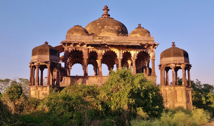 Battees Khamba (32 Pillars): The highest point in Ranthambore Fort